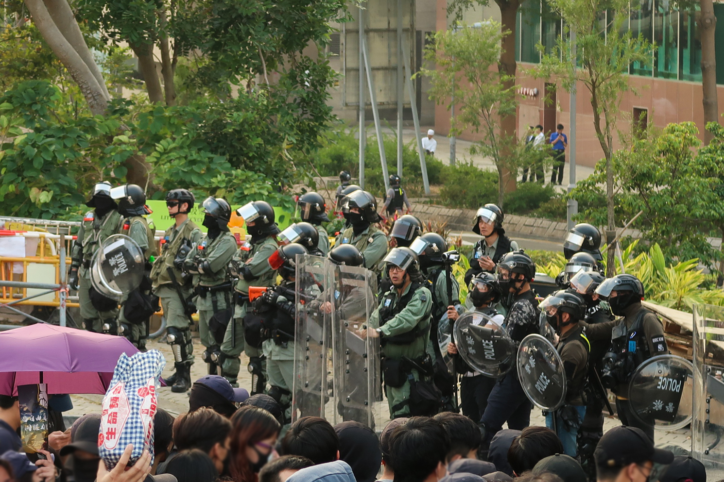 protester show Life Bread to police